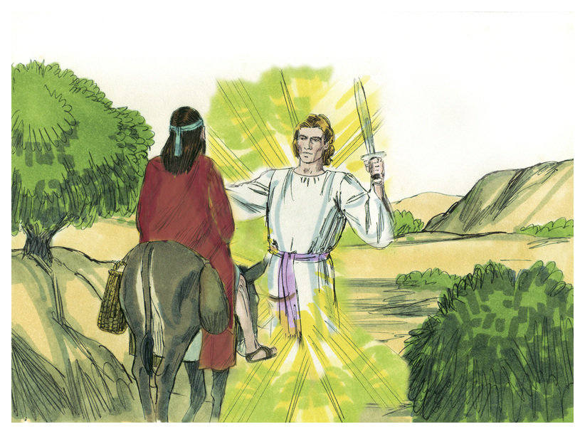 Biblical illustration of Book of Numbers Chapter 22